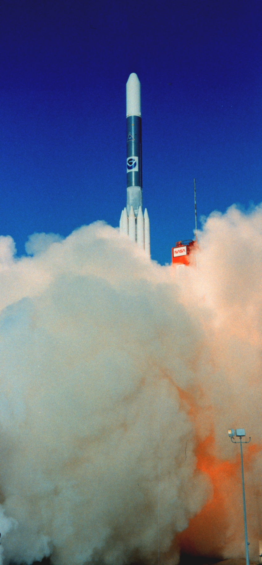 The launch of GOES-F aboard Delta Launch Vehicle 168.